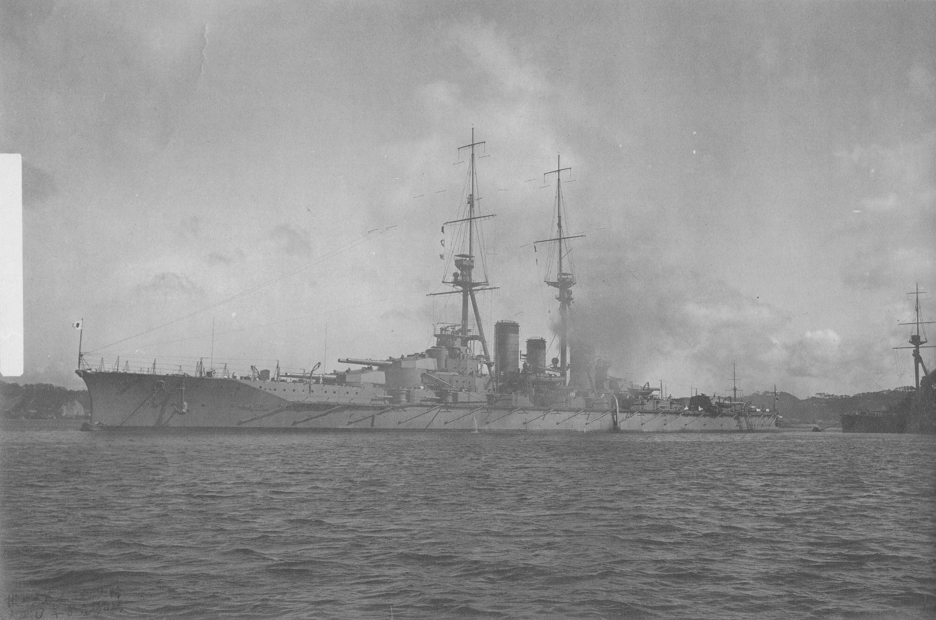 Imperial Japanese Navy battlecruiser Hiei at Yokosuka.